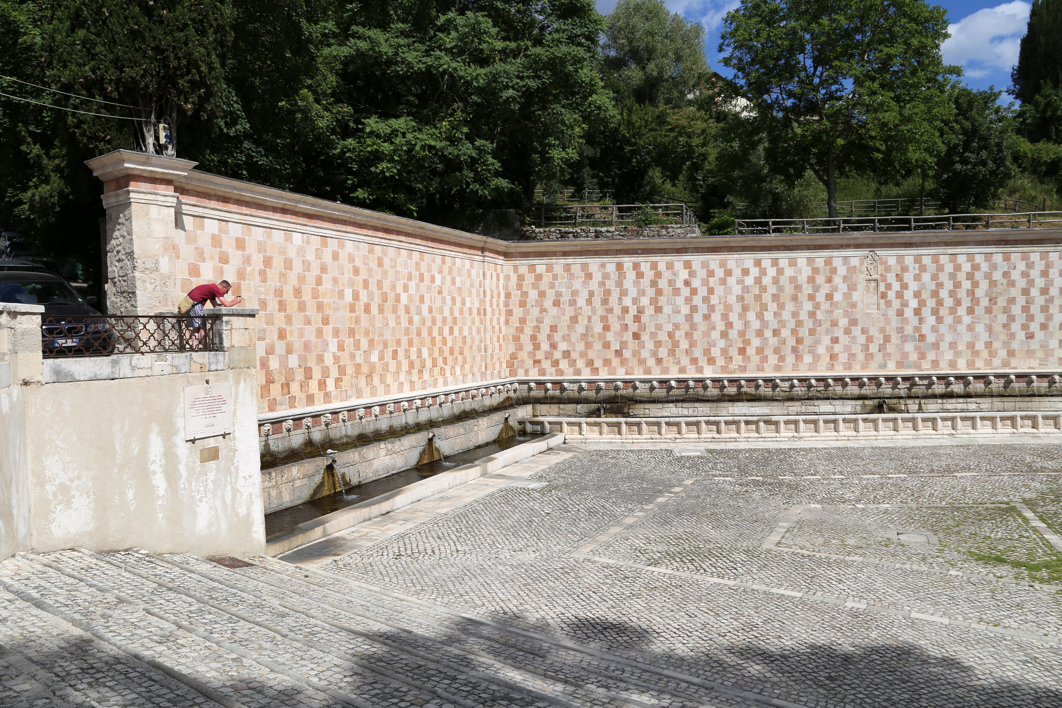 Fontana delle 99 cannelle (L'Aquila)